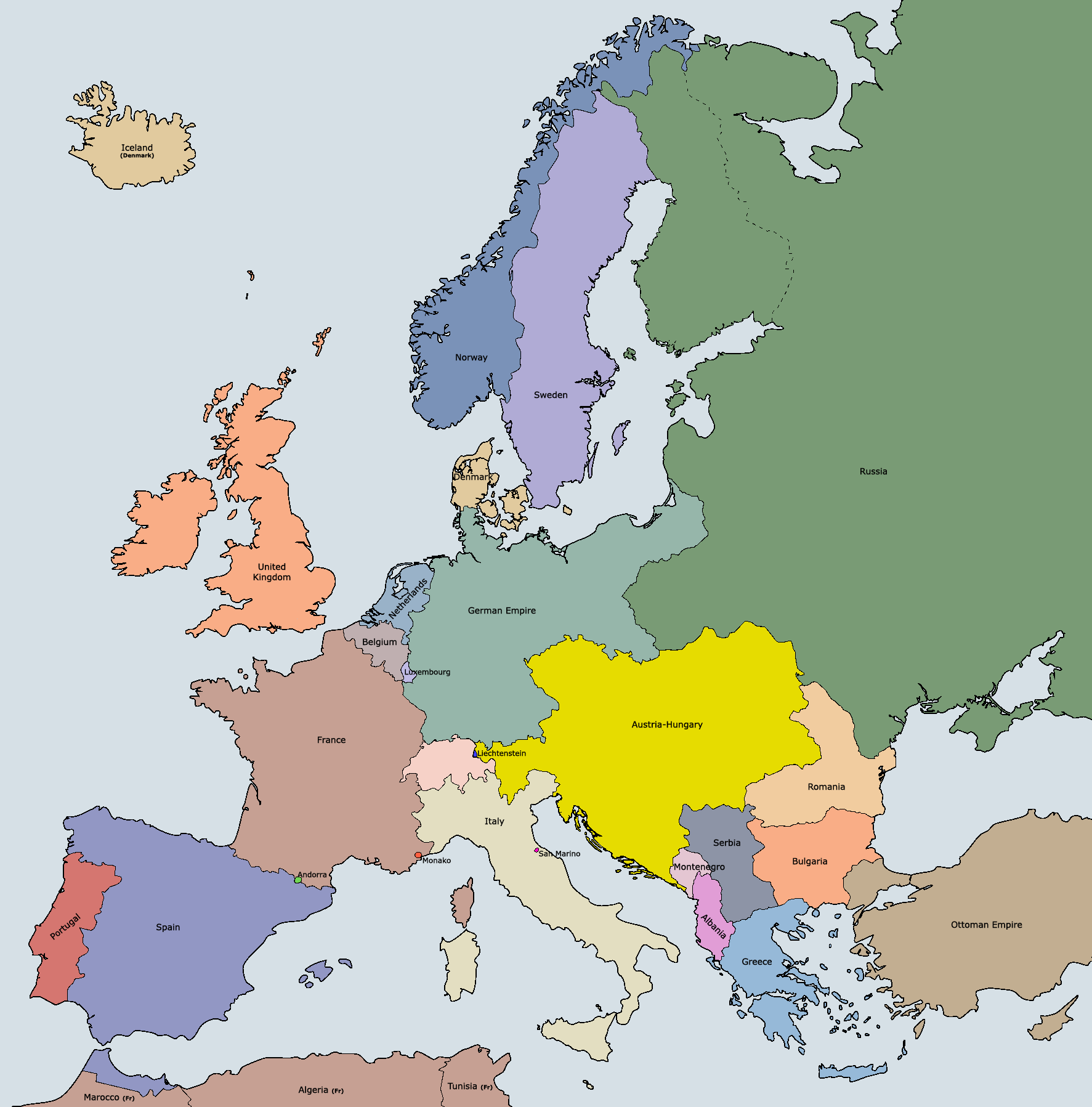 Political map of Europe 1914